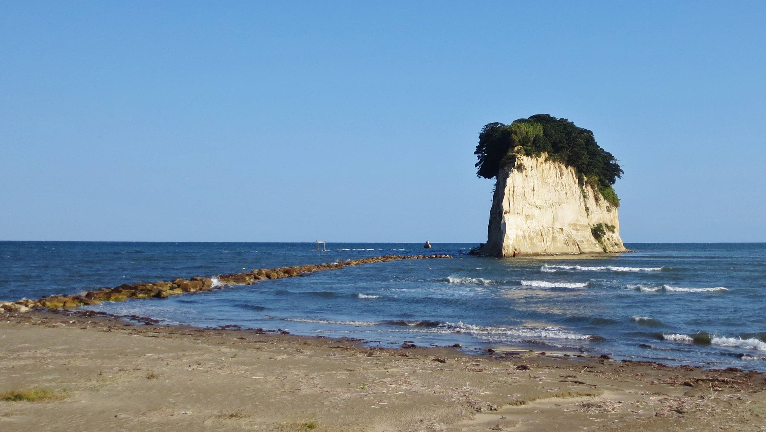 Mitsukejima.